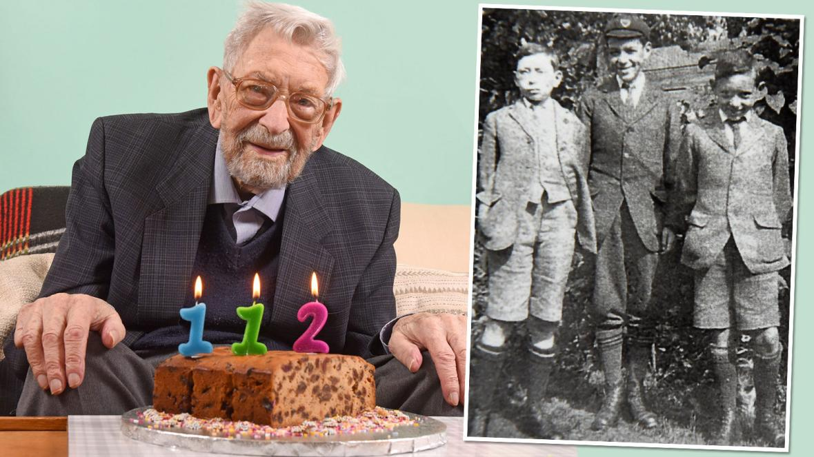 Robert Weighton 112